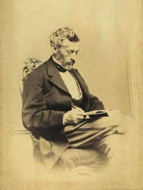 Peter August Vogelius (1821-1889), Danish pharmacist and master brewer